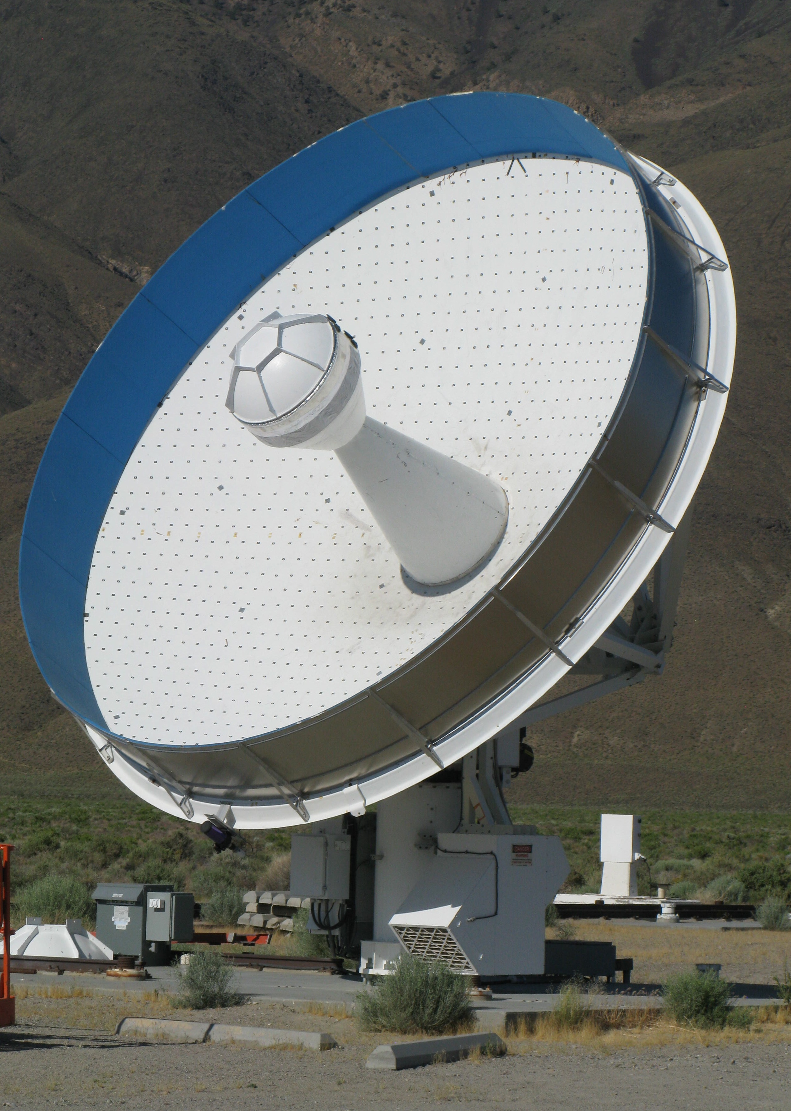 C-Band All Sky Survey. Northern telescope, at OVRO